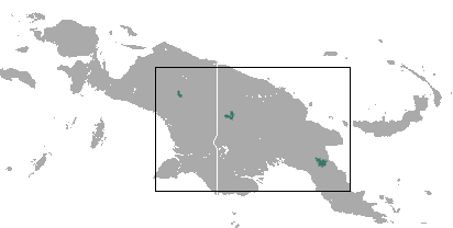 Moss-forest Blossom Bat (Syconycteris hobbit) range